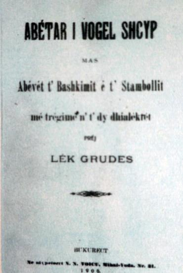 ABC-book from Luigj Gurakuqi (Lek Gruda)